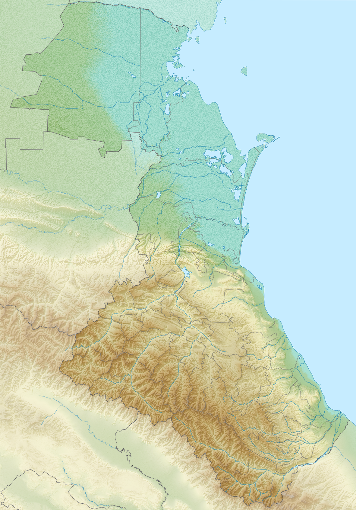 Dagestan location map Equirectangular projection, N/S stretching 136.7 %. True scale parallel: 43°00' N. Geographic limits of the map: N: 45.0° N S: 41.17° N W: 45.0° E E: 48.67° E